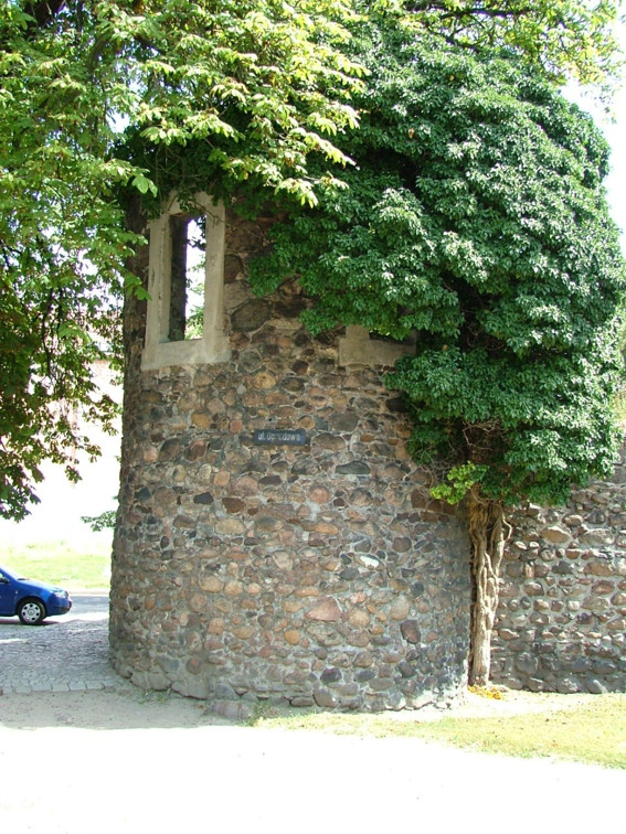 West Tower.